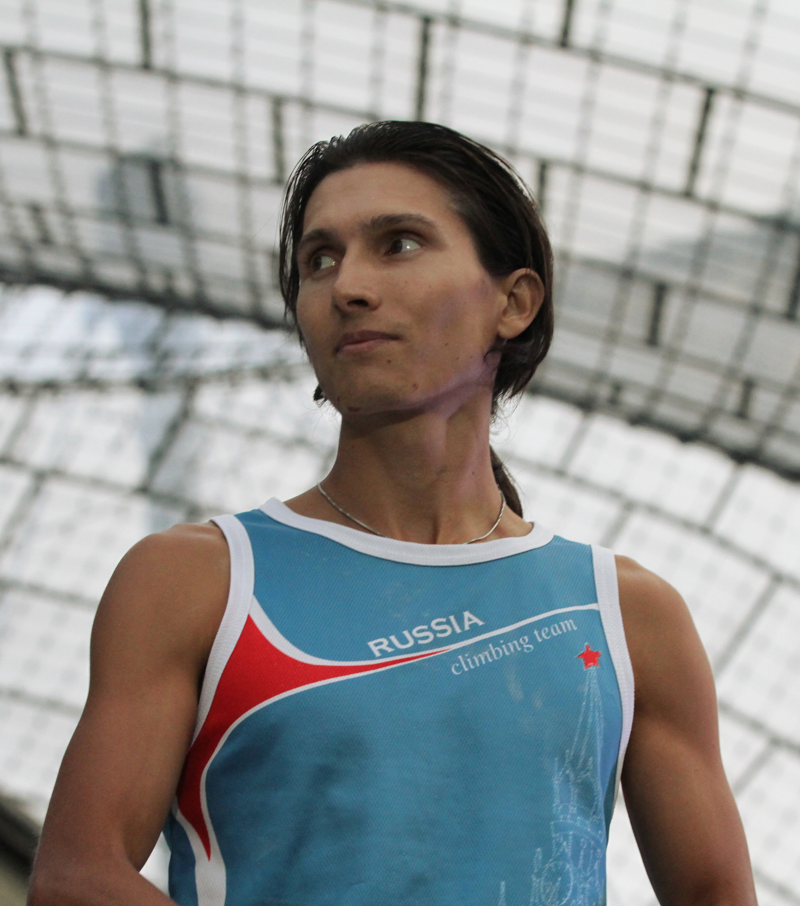 IFSC Boulder Worldcup, Munich 2015. Rustam Gelmanov (RUS)